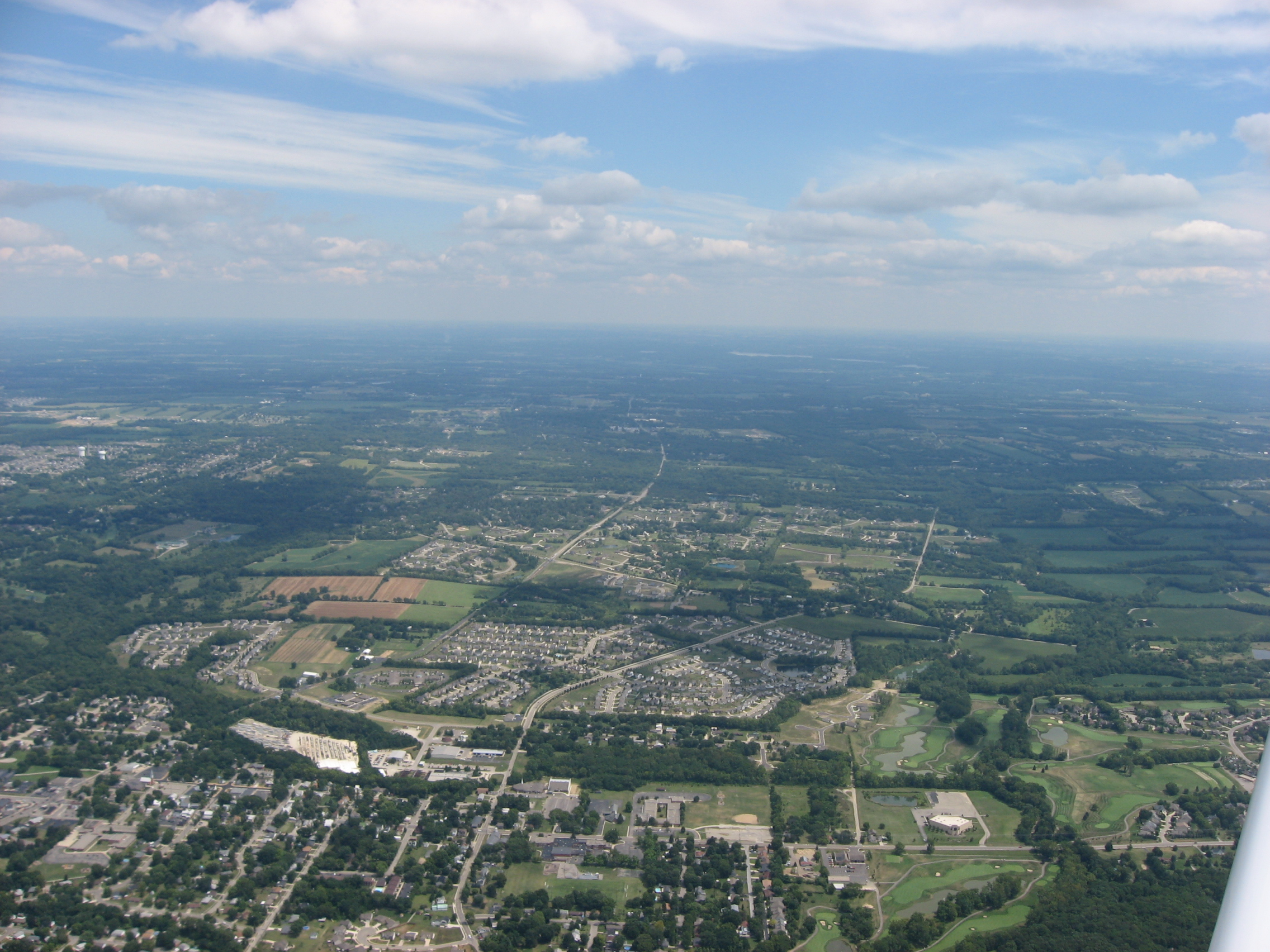 Aerial view of Springboro, a city primarily in Warren County, Ohio, United States; although part of the city extends into Montgomery County, this picture is taken exclusively over Warren County. Heatherwoode Golf Club is visible on the right side of the picture. Picture taken from a Diamond Eclipse light airplane at an altitude of 3,440 feet MSL and a bearing of approximately 95º.